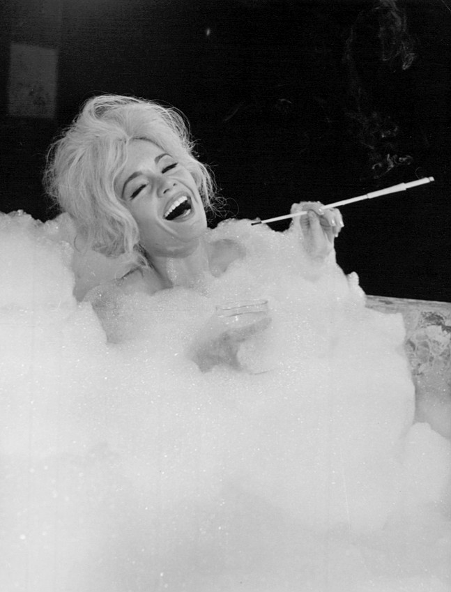 Photo of Tuesday Weld from The DuPont Show of the Week presentation of "The Legend of Lylah Clare". The item has no copyright markings on it as can be seen in the links above.